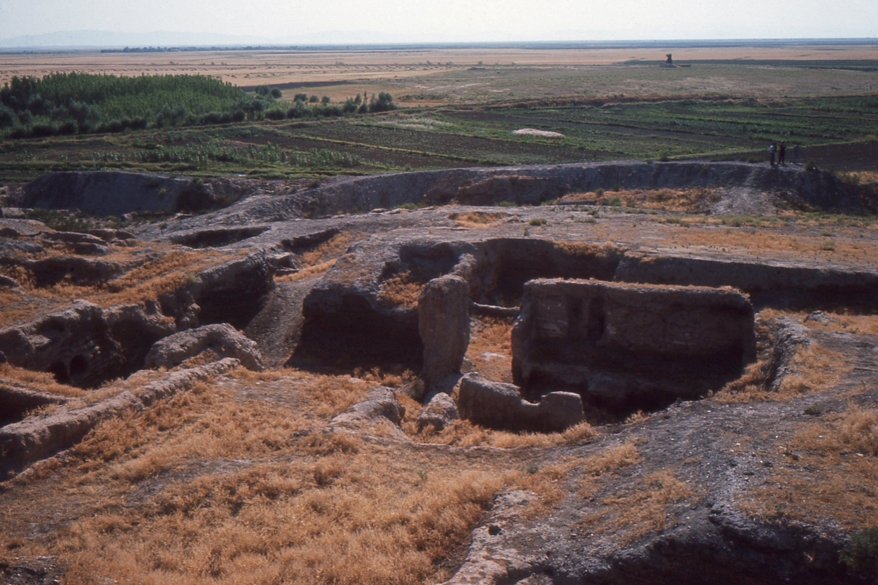 Çatalhöyük at the time of the first excavations.